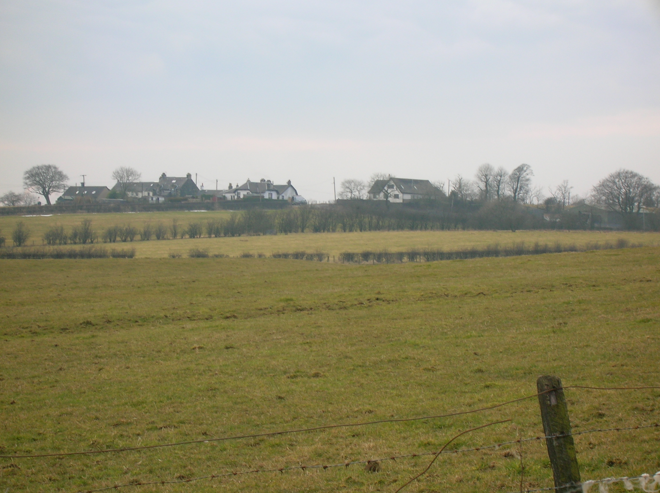 Greenhills hamlet from Bank of Giffen, near Burnhouse, Ayrshire, Scotland